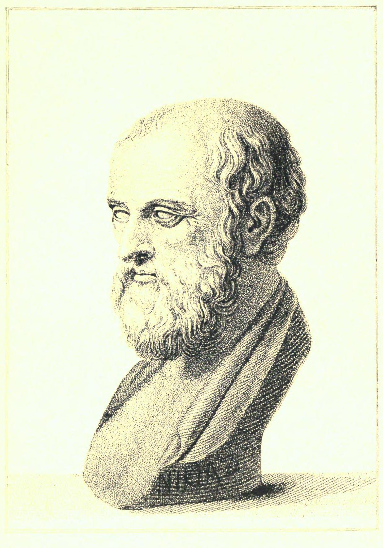 Bust of Nicias Page 105 of The World's Famous Orations, Vol. 1. Cropped.